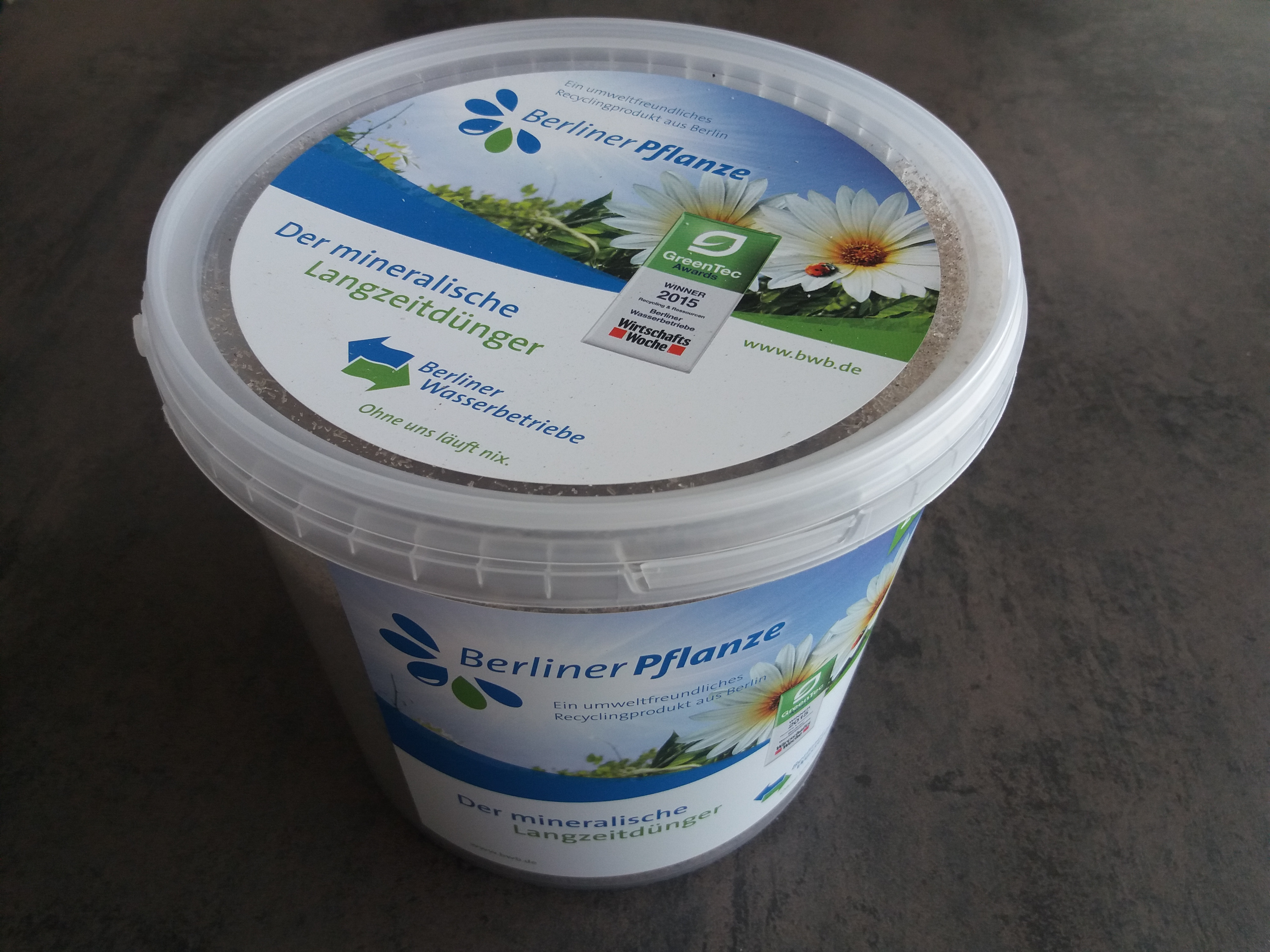 package of 2 kp of mineral fertilizer "Berliner Pflanze"